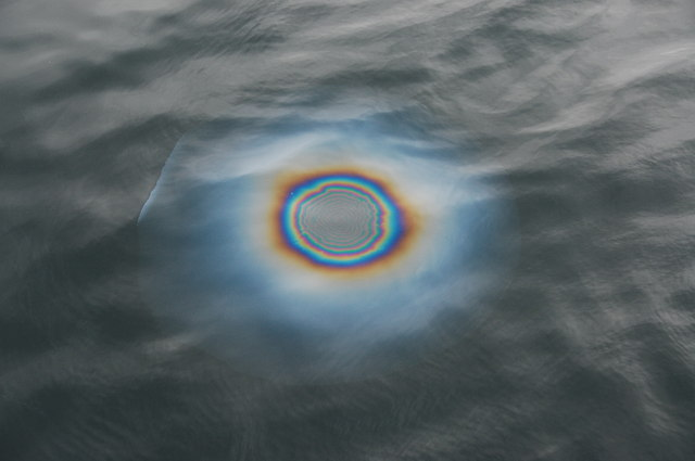 What it's all about Fuel oil rising to the surface, having escaped from the wreck. When she was torpedoed, the Royal Oak turned upside down trapping most of the crew: 833 men died. Fuel oil inside the wreck has been caught inside the hull, but inevitably some escapes. Every year for the last decade, the MoD has arranged for "taps" to be placed in the hull and the oil to be drained off.